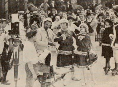 Still from the American film The Goat (1918) with casting director Clarence Geldart showing Fred Stone as doubling for Rhea Mitchell in a skating scene, on page 37 of the October 12, 1918 Exhibitors Herald.